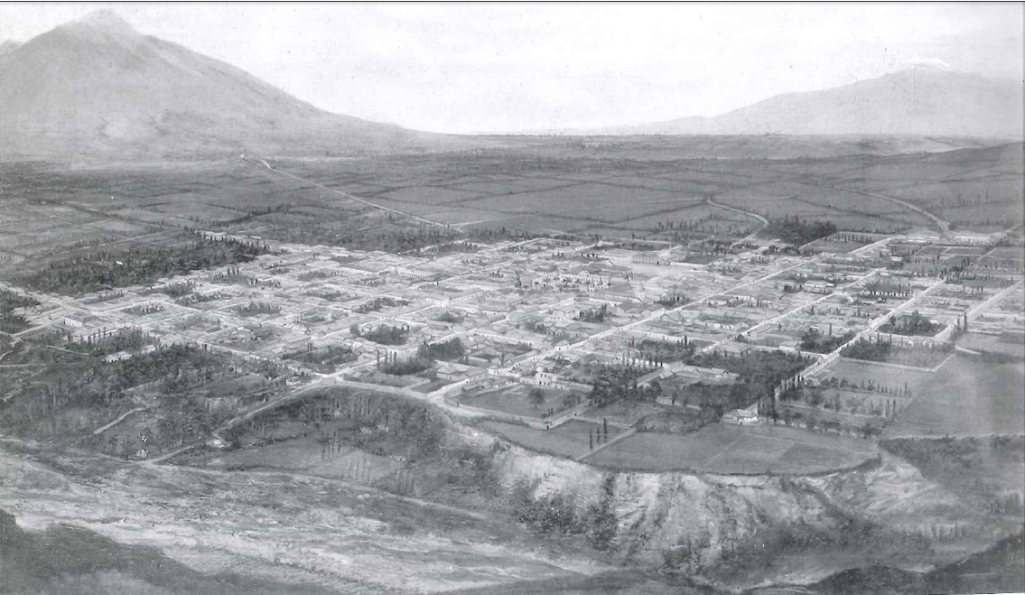 tramado del inicio de la ciudad de Ibarra